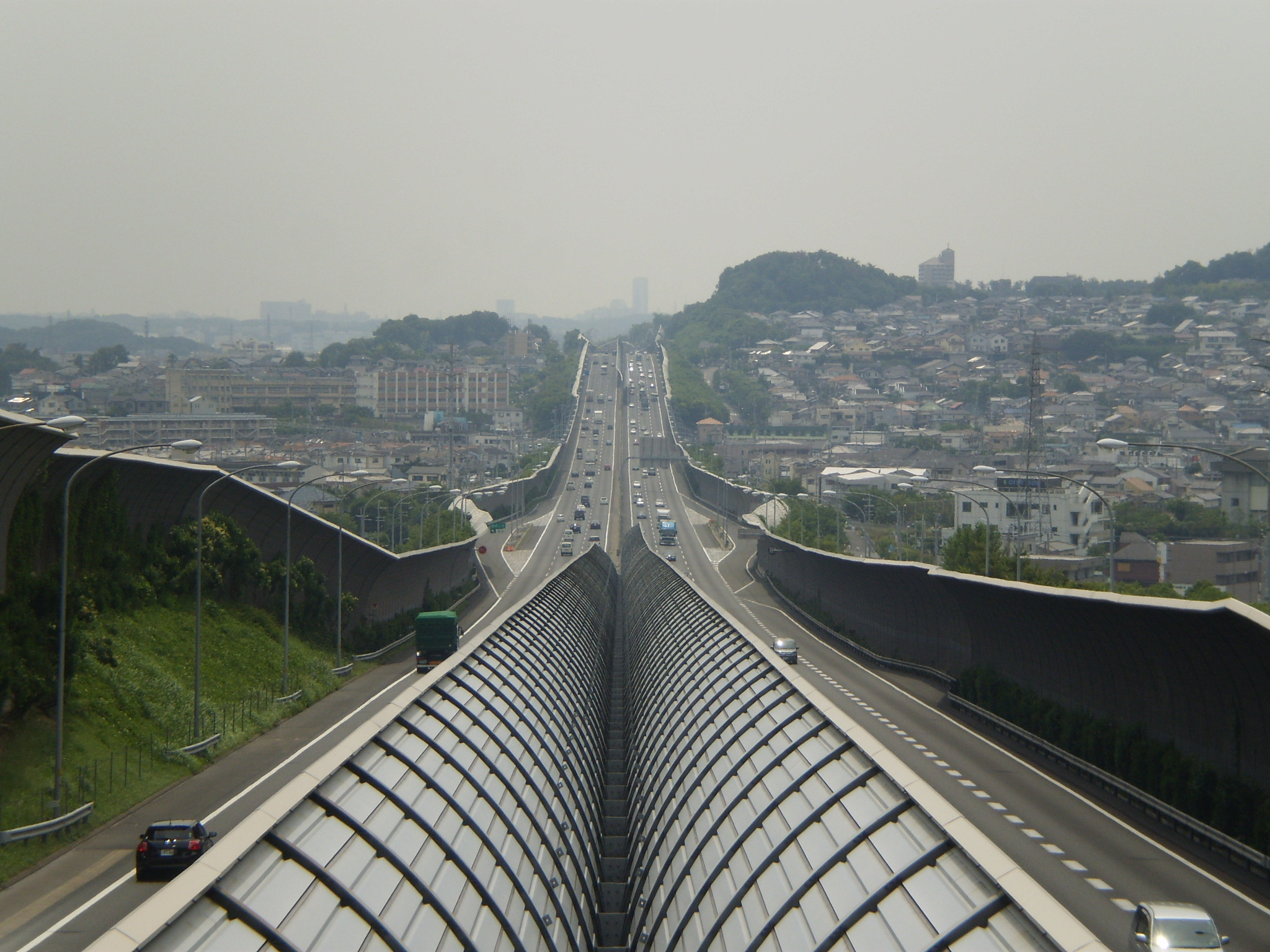 Meishin Expressway. I took this image at Magamicho-6chome Takatsuki City Osaka Pref., Japan.